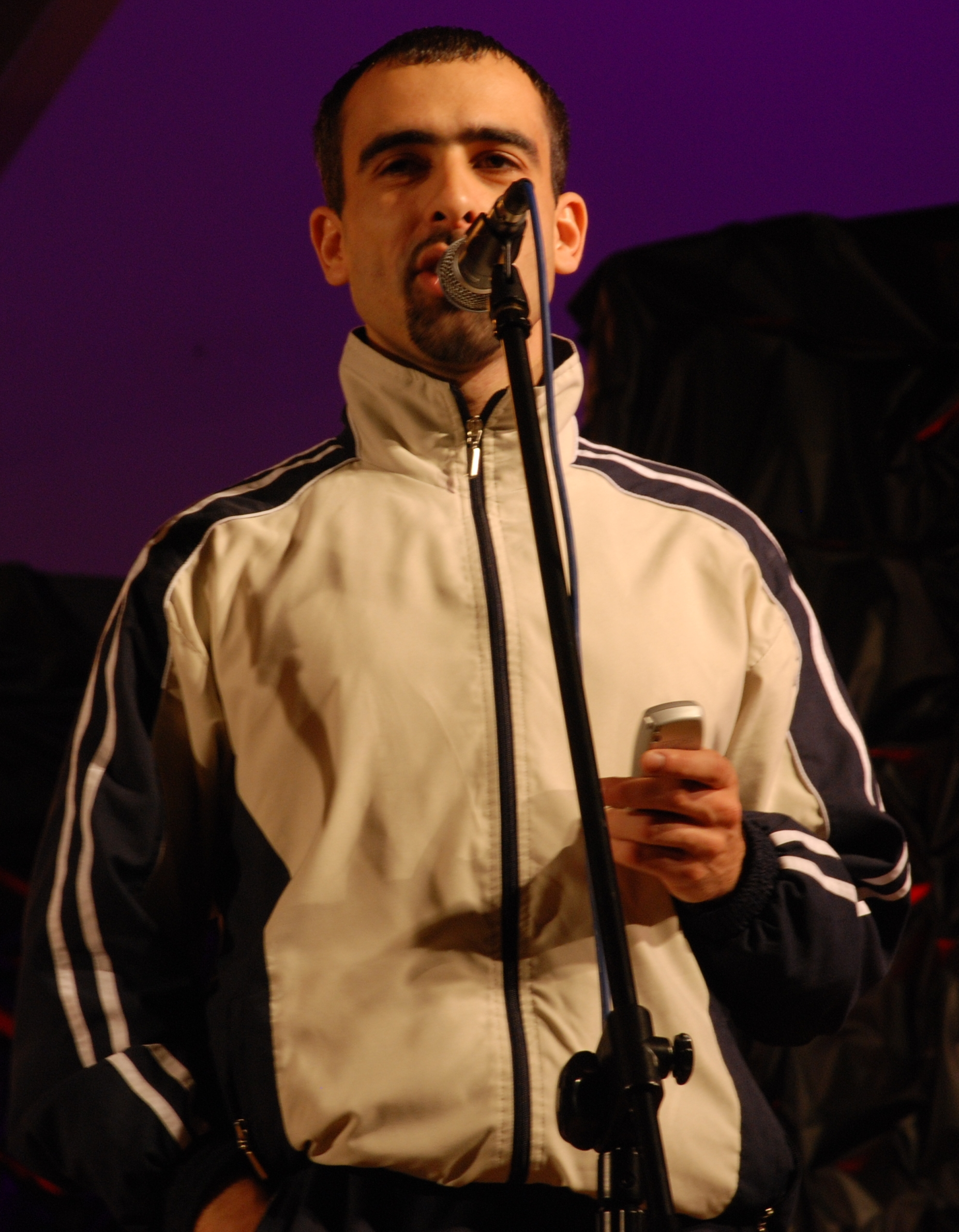 Abelard Giza of Kabaret Limo during his performance at the 2007 Festival of Cabaret in Zielona Góra.